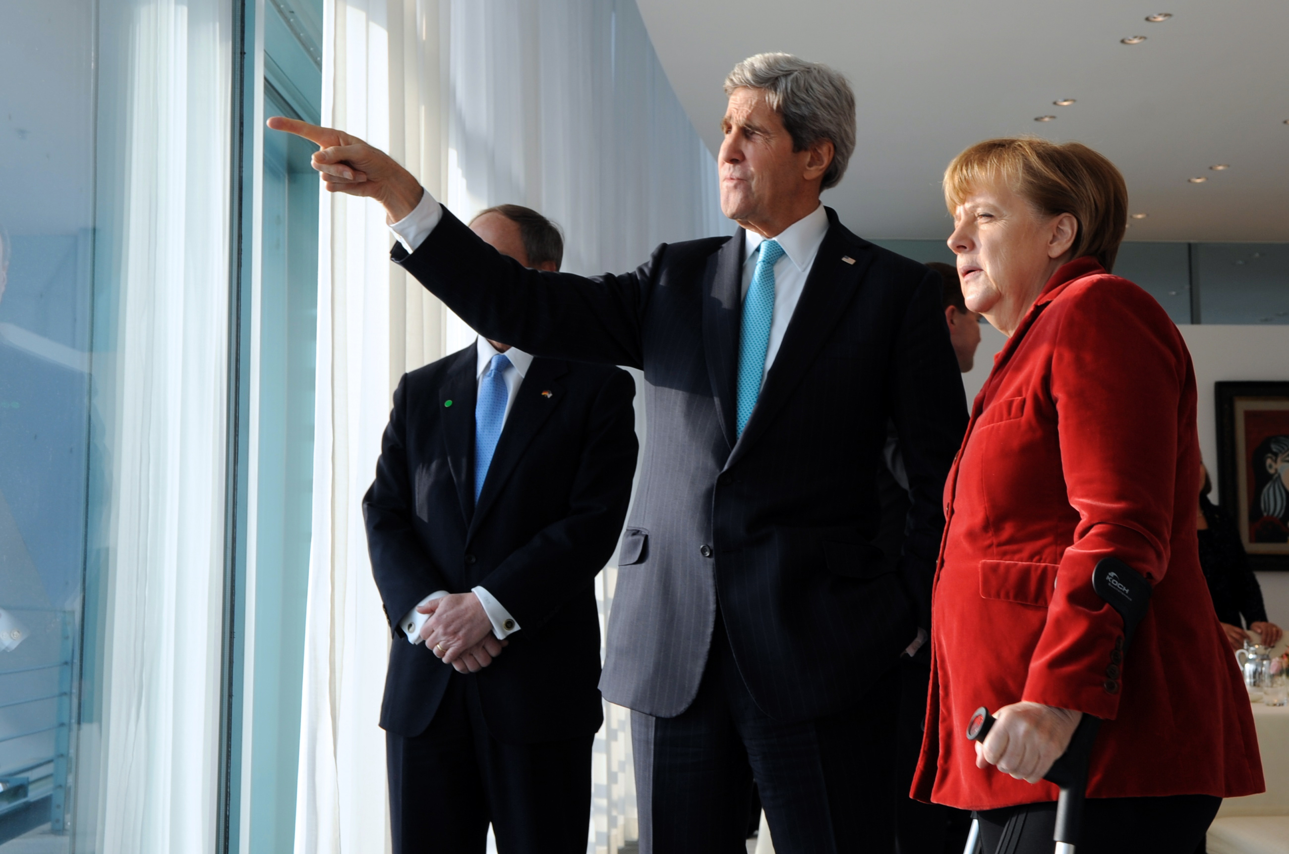 German Chancellor Angela Merkel, U.S. Secretary of State John Kerry, and U.S. Ambassador to Germany John Emerson admire the view of Berlin, Germany, from Merkel's office in the Chancellery on January 31, 2014. [State Department photo/ Public Domain]